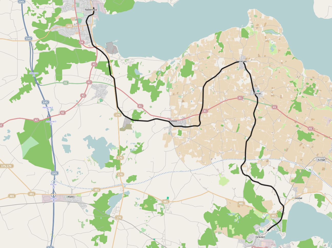 Railway line Åbenrå - Gråsten